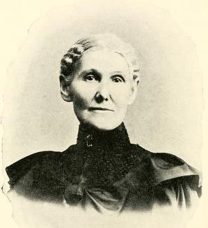 An older white woman, wearing a high-necked black dress with wide ruffled shoulders. She has white hair parted center and drawn back.